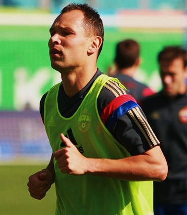 Sergei Ignashevich